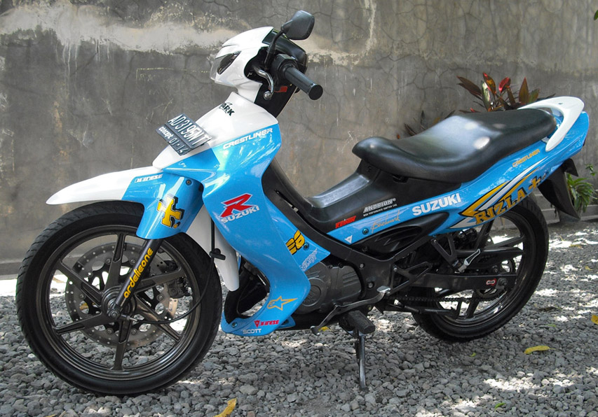 My bike modification